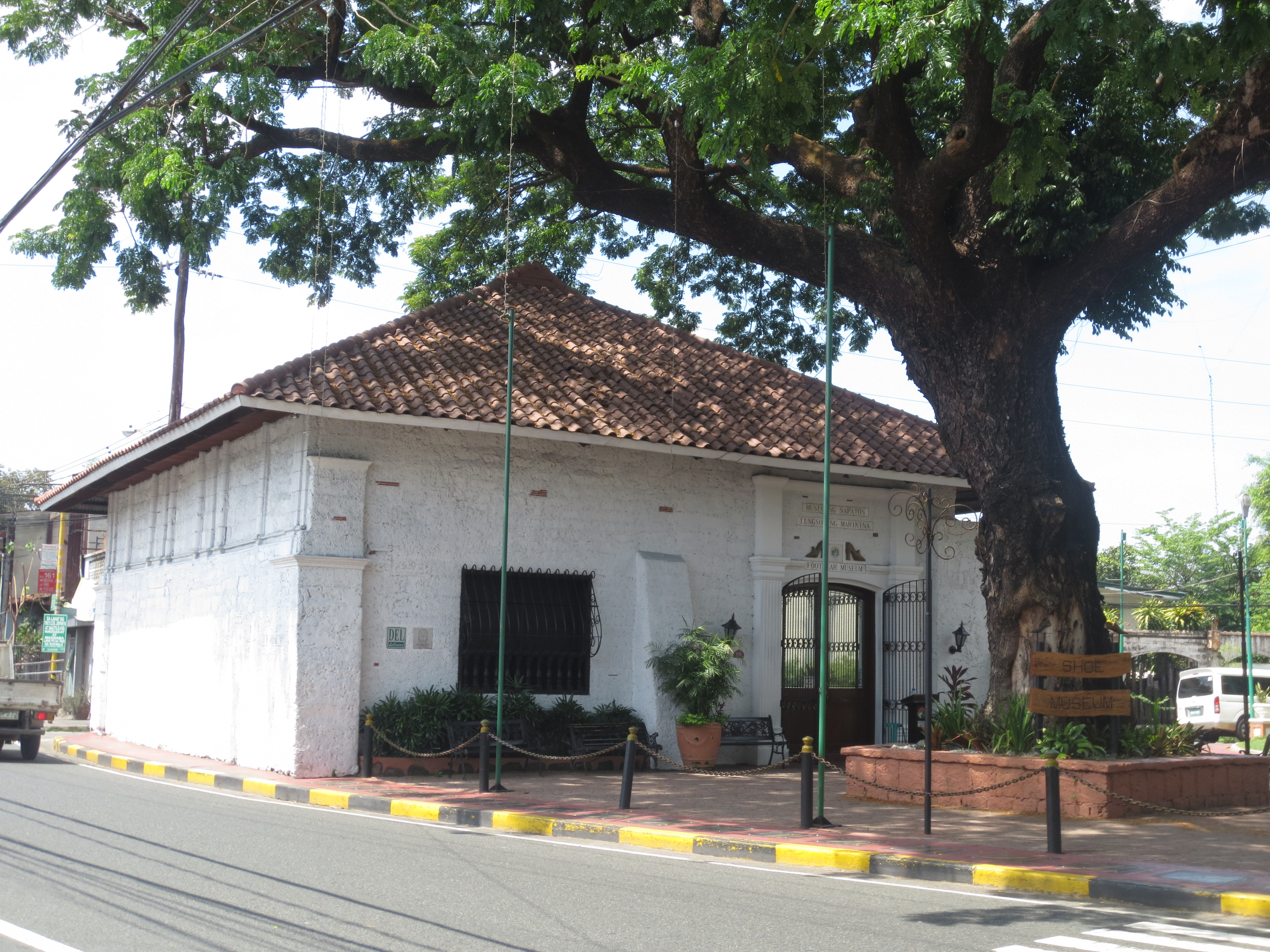 The facade of the Shoe Museum.